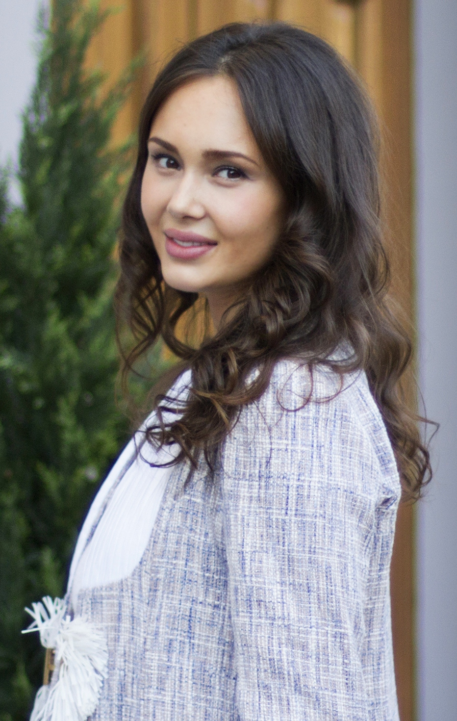 Aida Garifullina, Kazan, 2014